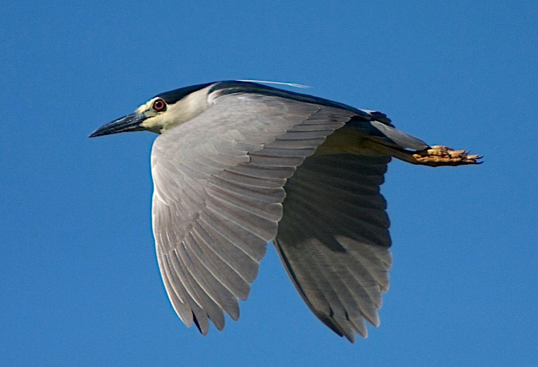 Black Crowned Night Heron flying above upper Los Gatos Creek